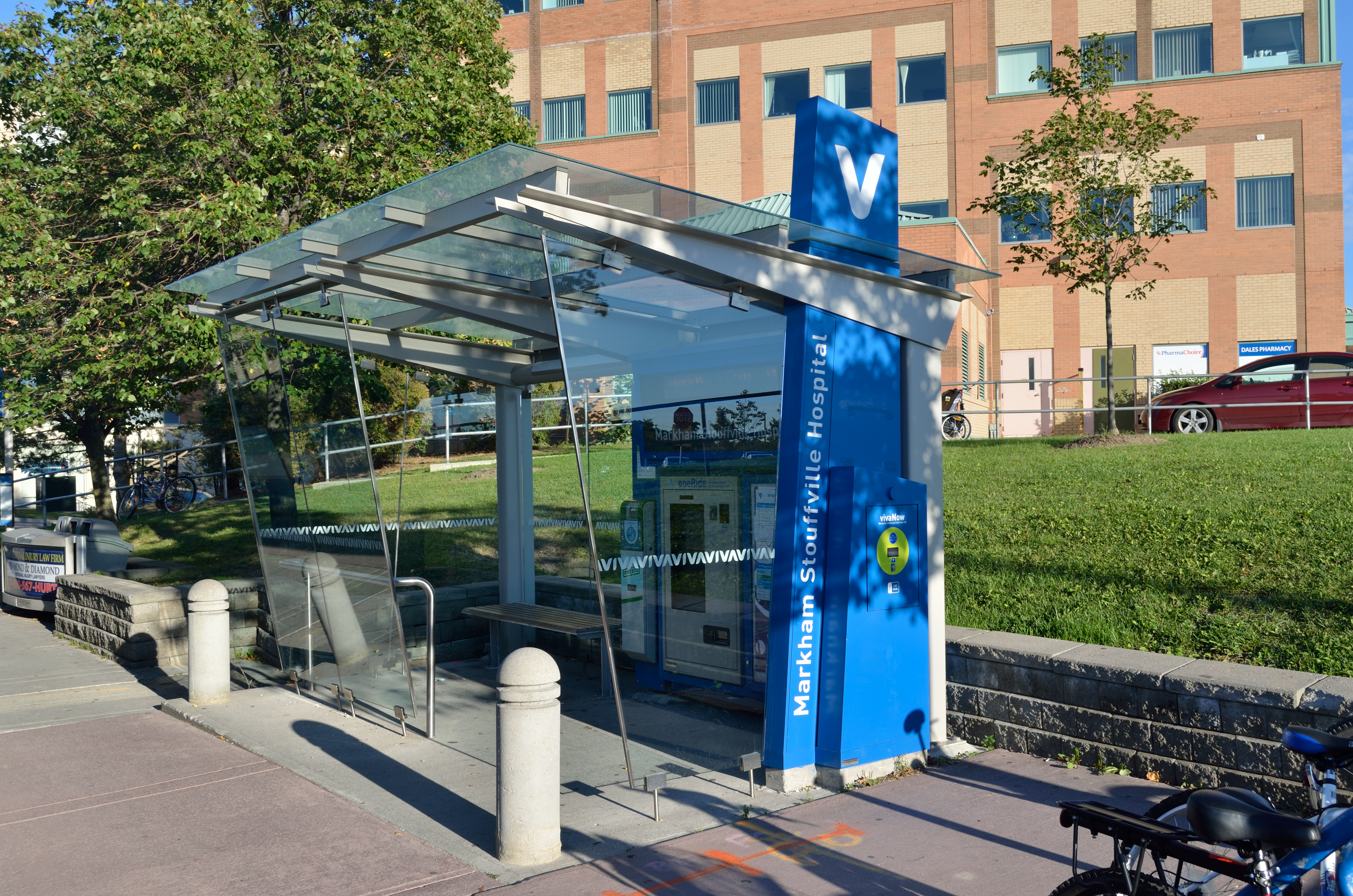 Markville Stouffville Hospital VIVA station